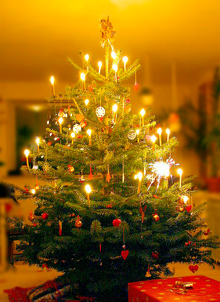 A Danish Christmas tree illuminated with burning candles, adorned with homemade Christmas decorations such as red hearts, white paper snowflakes, a golden star at the top, and gifts stacked underneath.